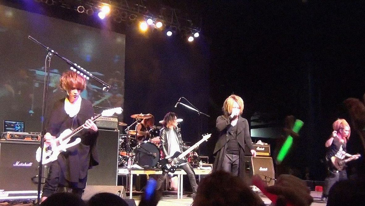 Nightmare performing in America, in 2014.